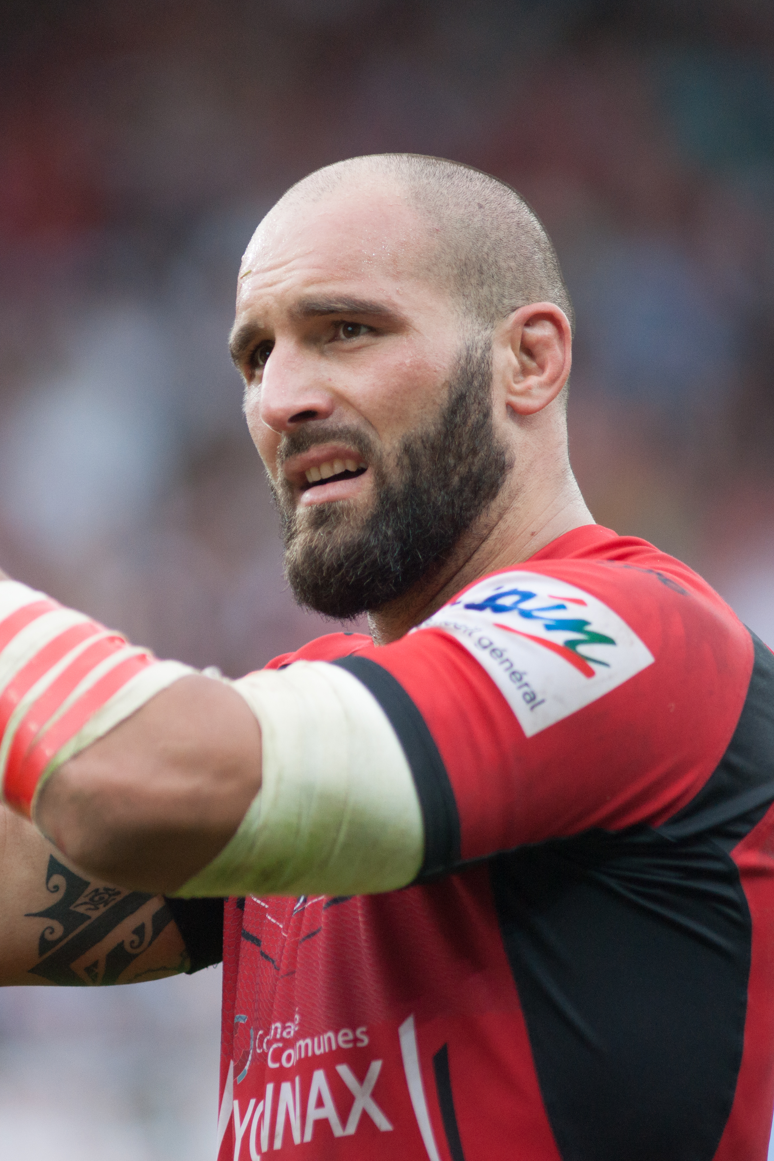 The making of this document was supported by Wikimedia CH. (Submit your project!) For all the files concerned, please see the category Supported by Wikimedia CH. US Oyonnax - Rugby club toulonnais, 28th September 2013